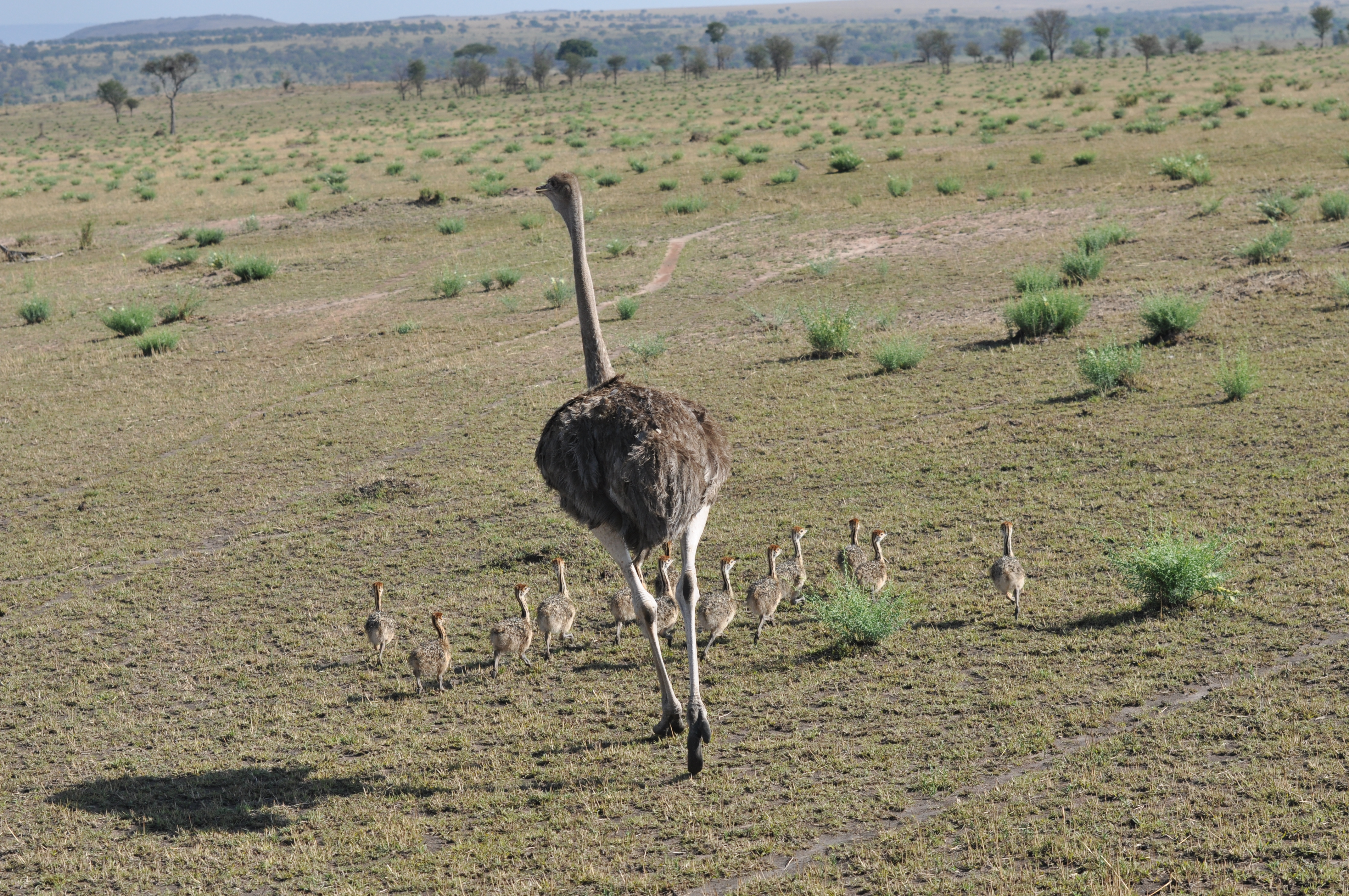 Ostrich running with chicks in northern Serengeti